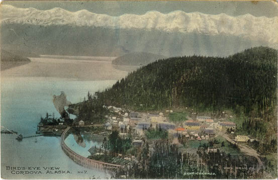 Postcard: "Bird's Eye View, Cordova, Alaska" 1910